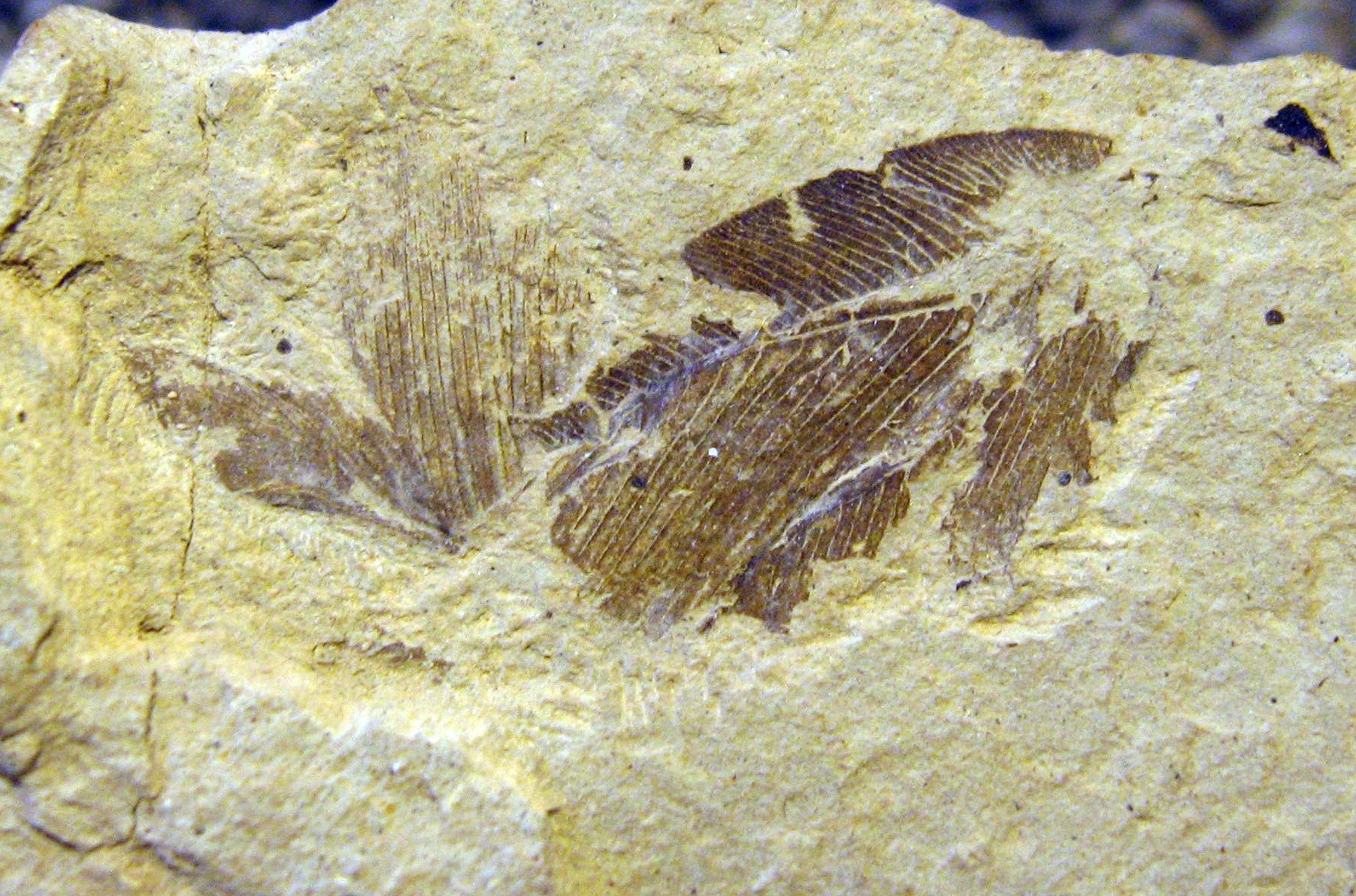 Polystoechotites barksdalae Holotype, part. A 2.8cm wing, distorted at the apex. Klondike Mountain Formation, Republic, Ferry County, Washington, USA, Eocene, Ypresian, 49million years old. Stonerose Interpretive Center Collection # SR 97-03-08 A